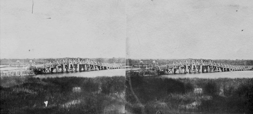 Stereo scopic photo taken circa 1862 of the first birdge across the Causeway in Perth Western Australia